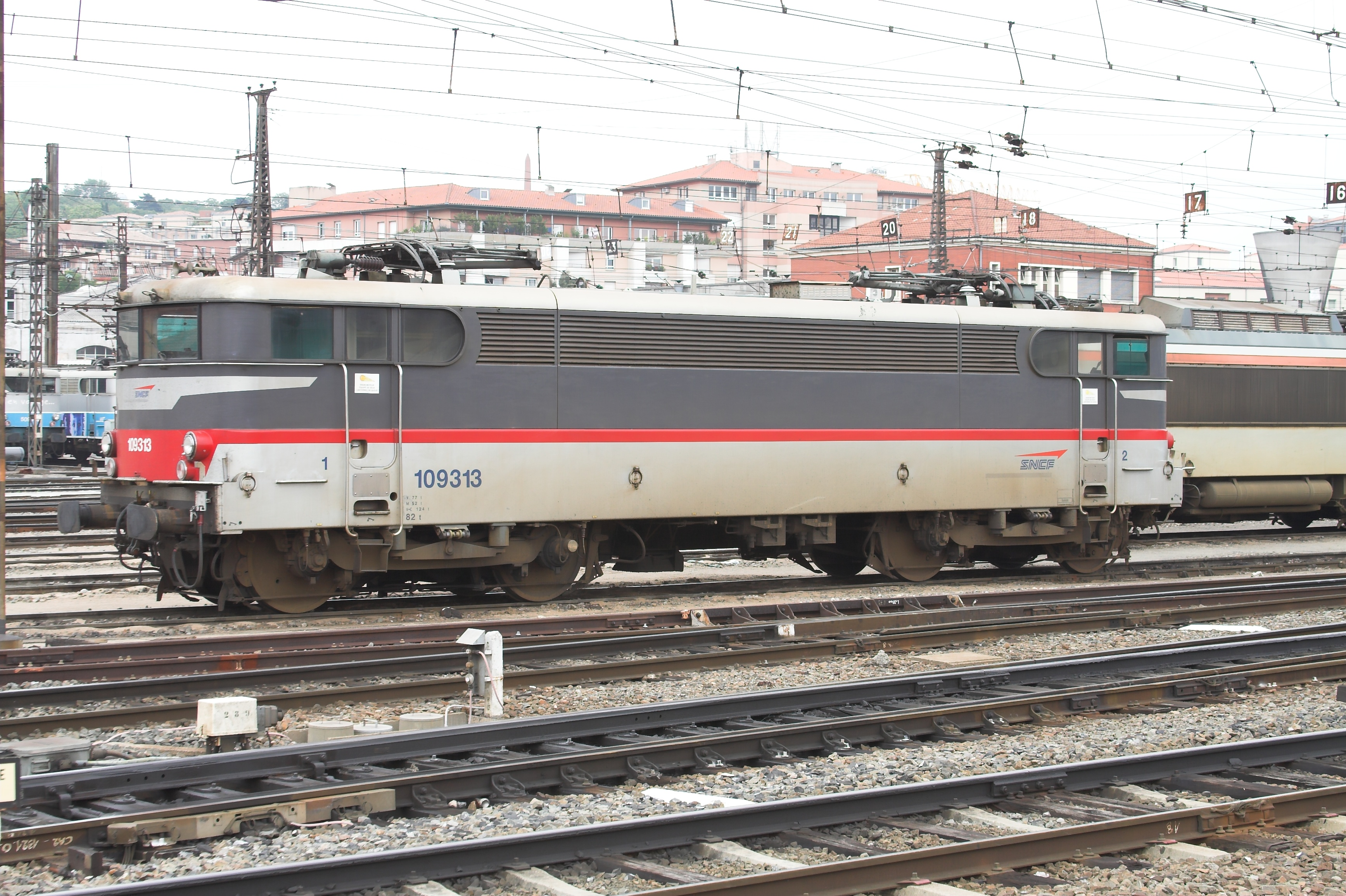 an electric locomotive SNCF BB9300 at the station Matabiau in Toulouse, France